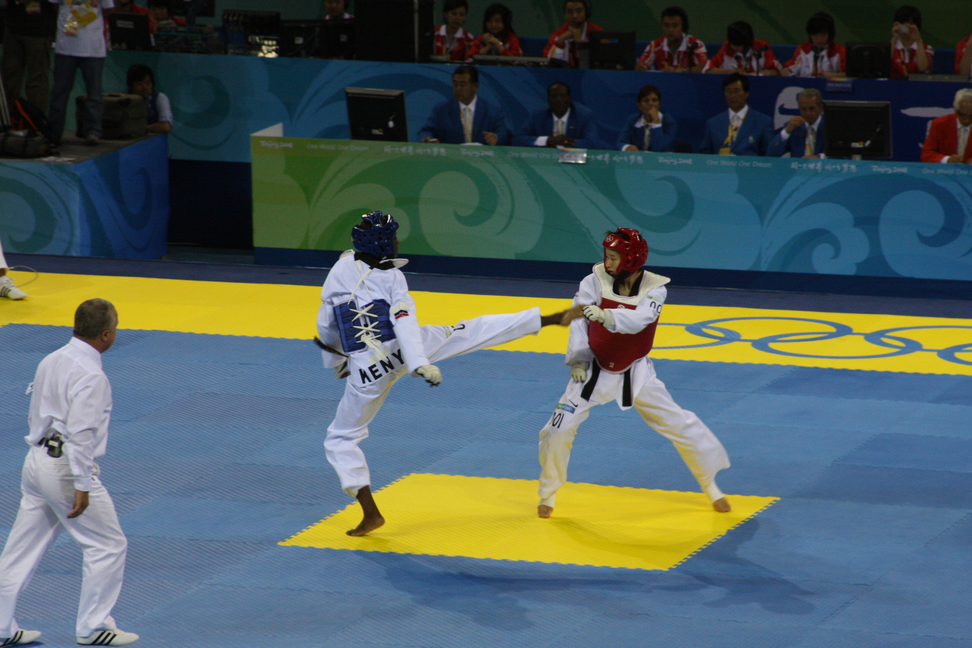 2008 Summer Olympics Taekwondo - Mildred Alango (KEN, blue) v. Wu Jingyu. (CHN, red)